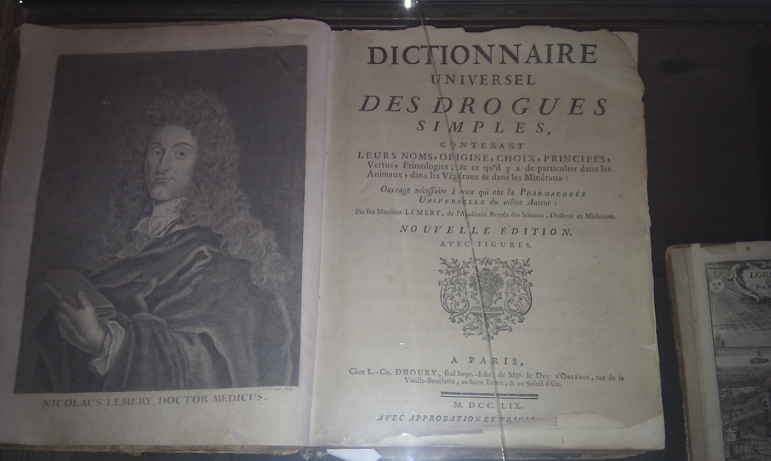 Universal dictionary of simpel drugs by Nicolas Lemery.